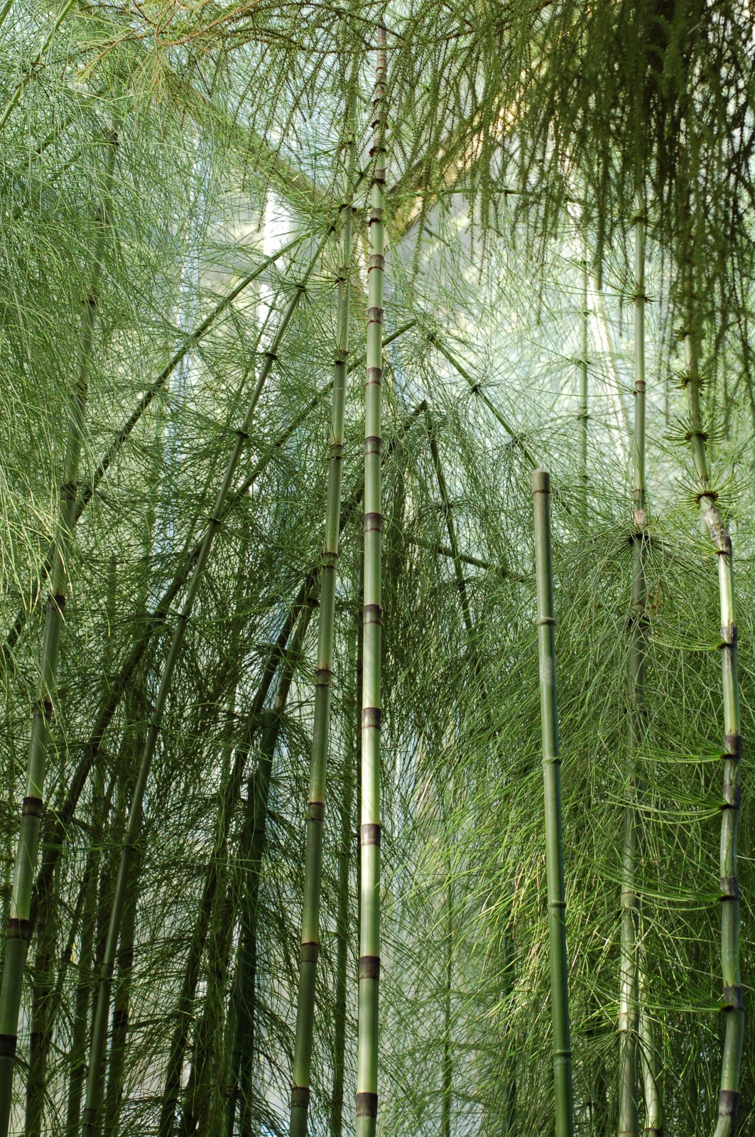 Equisetum myriochaetum, cultivated under glass, Royal Botanic Gardens, Edinburgh. Foliage of Dacrydium cupressinum at top right.